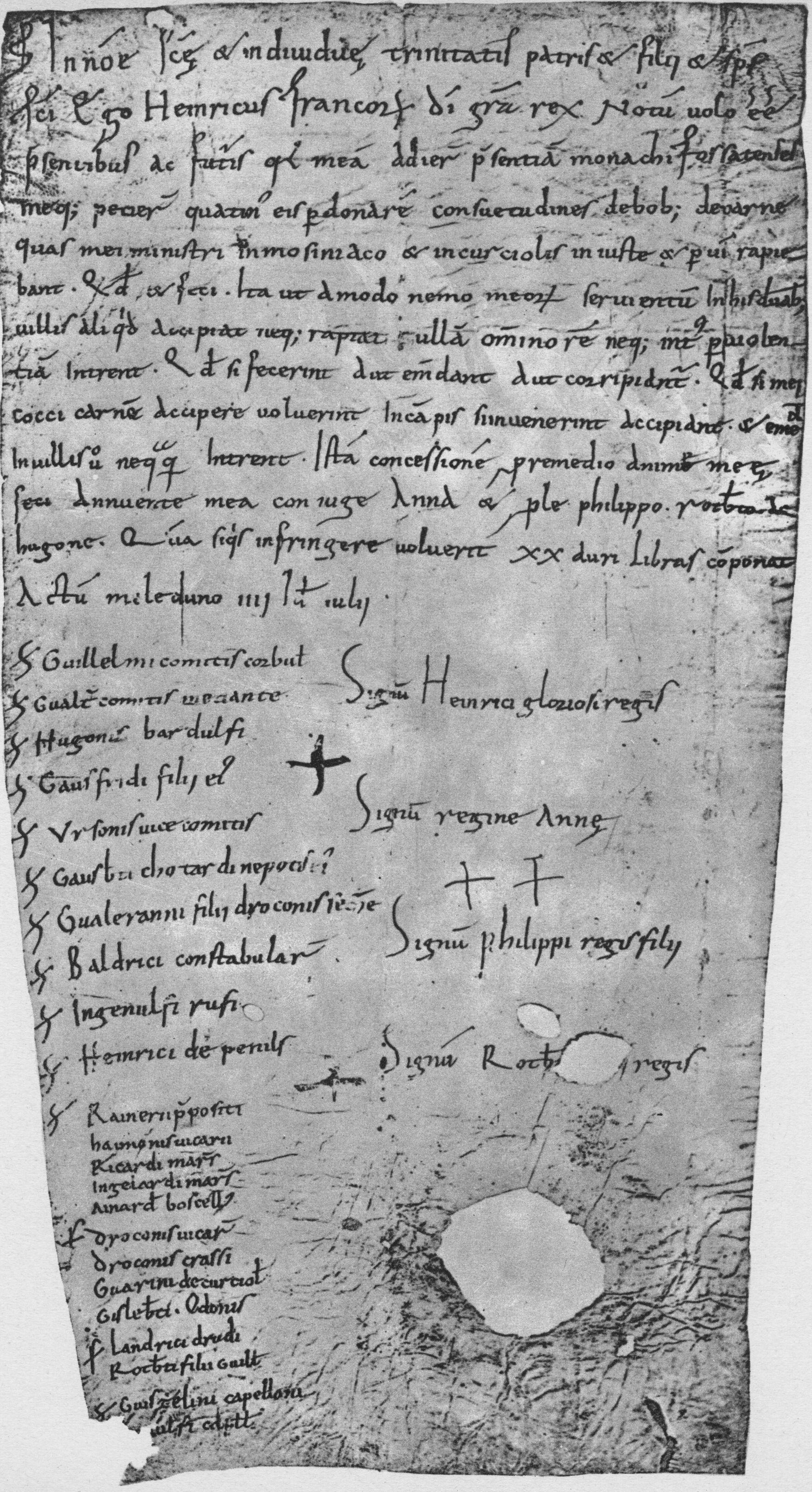 A charter of king Henry I of France for the abbey of Saint-Maur-des-Fossés. Paris, Archives nationales, AE/II/101.